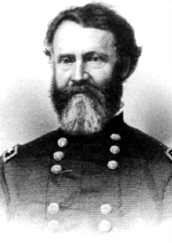 Alexander Brydie Dyer, Union general. Source: [1]